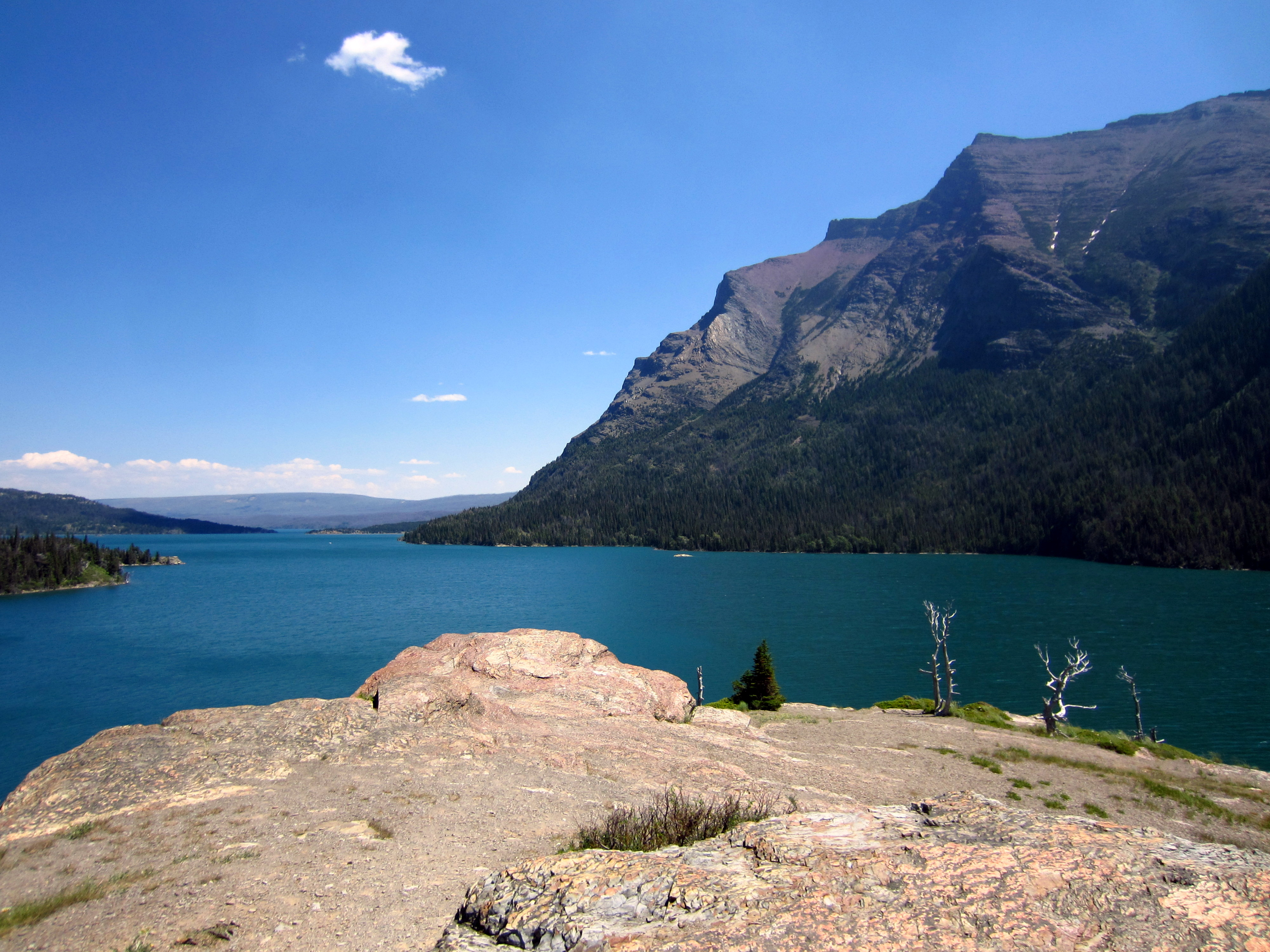 One of the many beautiful locations for your wedding at Glacier National Park. For more information regarding the wedding permit process go to or call (406) 888-7825 to speak with the Permit Specialist. For a detailed and navigable map of where this is located in the park, click the pink dot on the map to the right. Photo: Gabriel Morrow, NPS